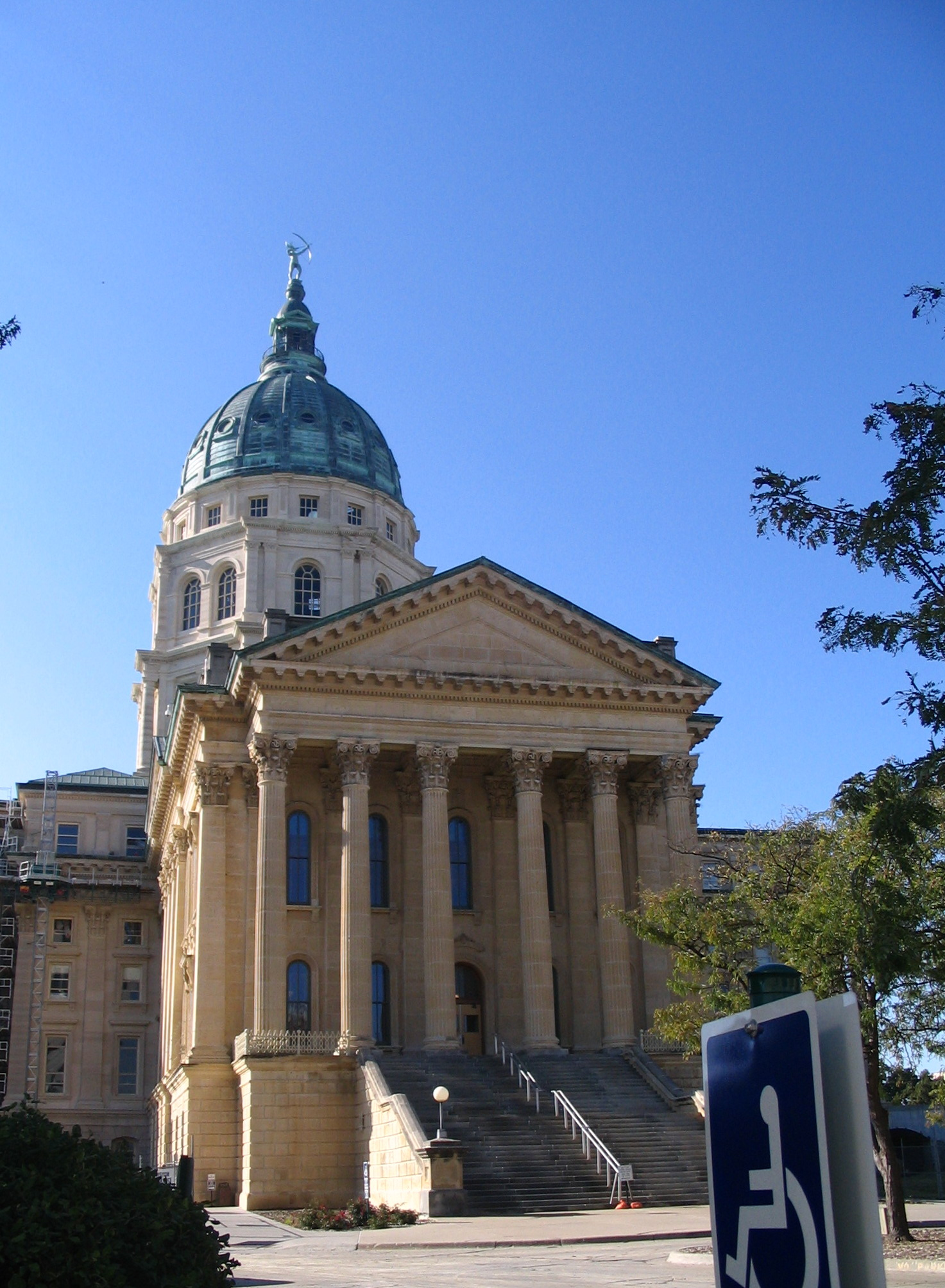 Photo of the Kansas Capitol Building in Topeka. The initial design dates to 1866 and was by E. Townsend Mix of Milwaukee, Wisconsin. His plan was modified by John G. Haskell, an architect from Lawrence, Kansas, named to the position of State Architect of Kansas in 1866. Haskell favored a plainer, more classical appearance than did Mix, who had planned mansard roofs in a Second Empire design.